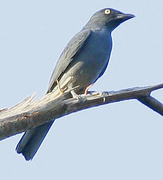 Bar-bellied Cuckoo-shrike (Coracina striata) Mount Makiling, Nov 19, 2006